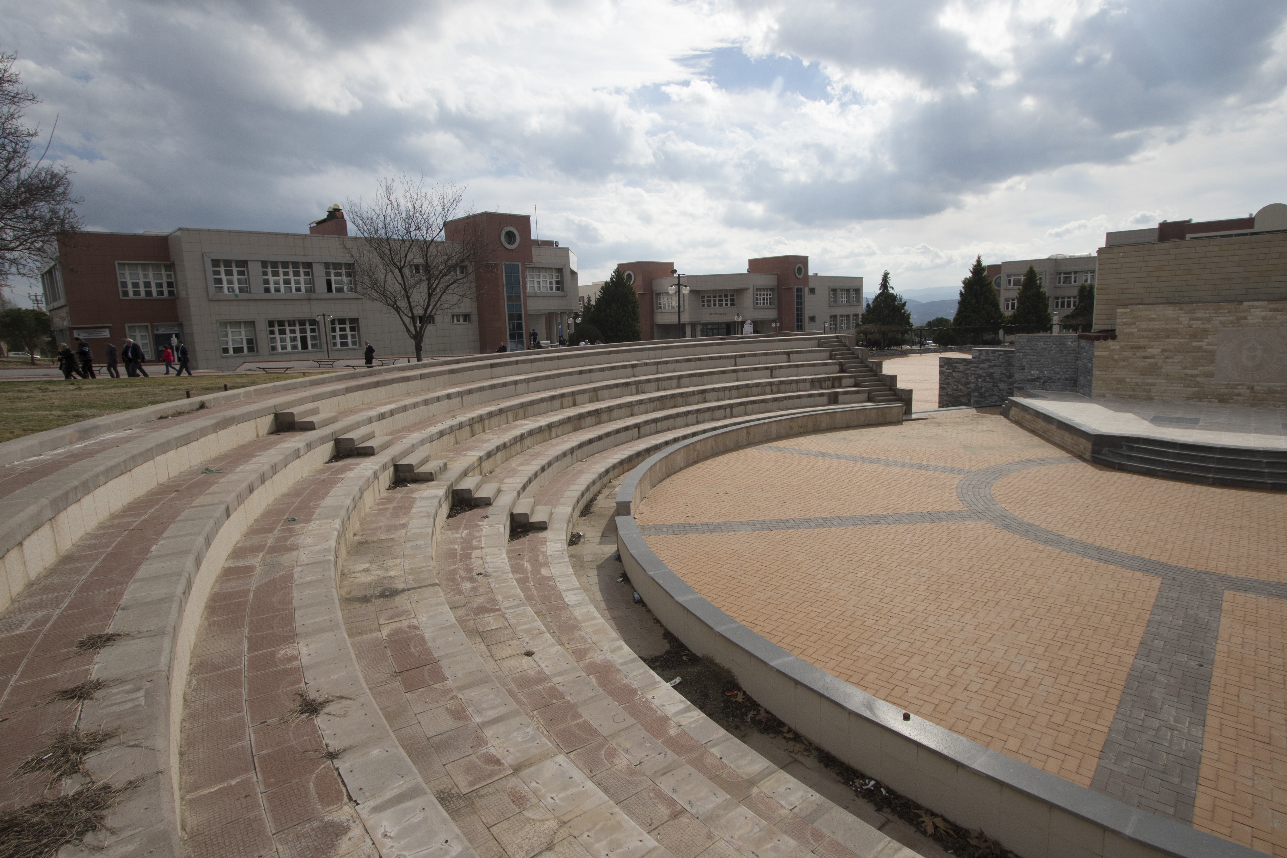 Tralleis Amphitheater at Adnan Menderes University Campus. Aydın, Turkey.